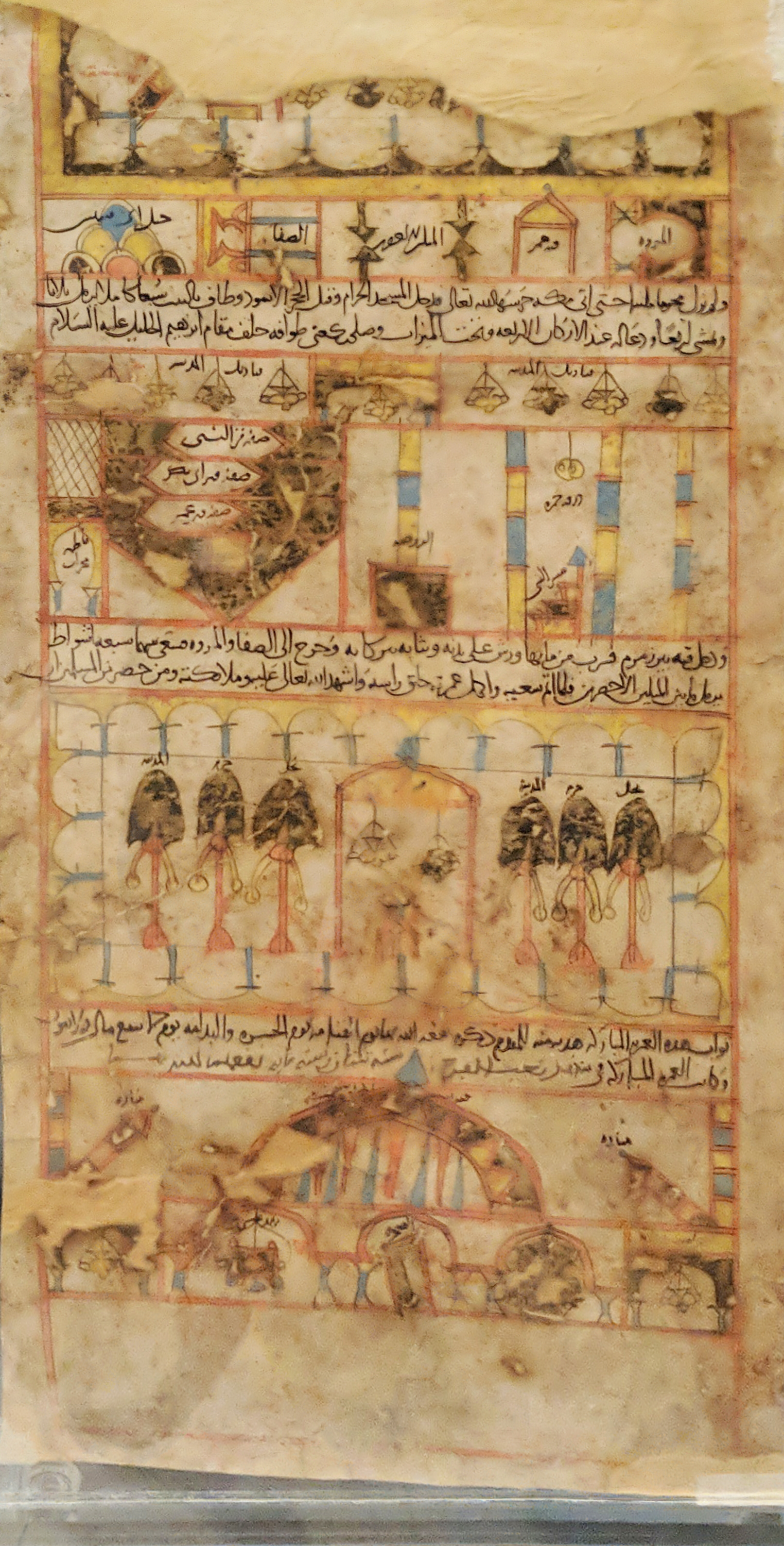 Hajj certificate, dated 602 AH or 1205 CE, Ayyubid period inv no 4737, 4746 Turkish and Islamic Arts Museum Native nameTürk ve İslâm Eserleri MüzesiLocationIstanbulCoordinates41° 00′ 22.6″ N, 28° 58′ 28.4″ E Established1914Web control : Q525939 VIAF: 137639434 ISNI: 0000 0001 2110 5264 LCCN: nr89008075 SUDOC: 066011000 BNF: 13619676w WorldCat institution QS:P195,Q525939